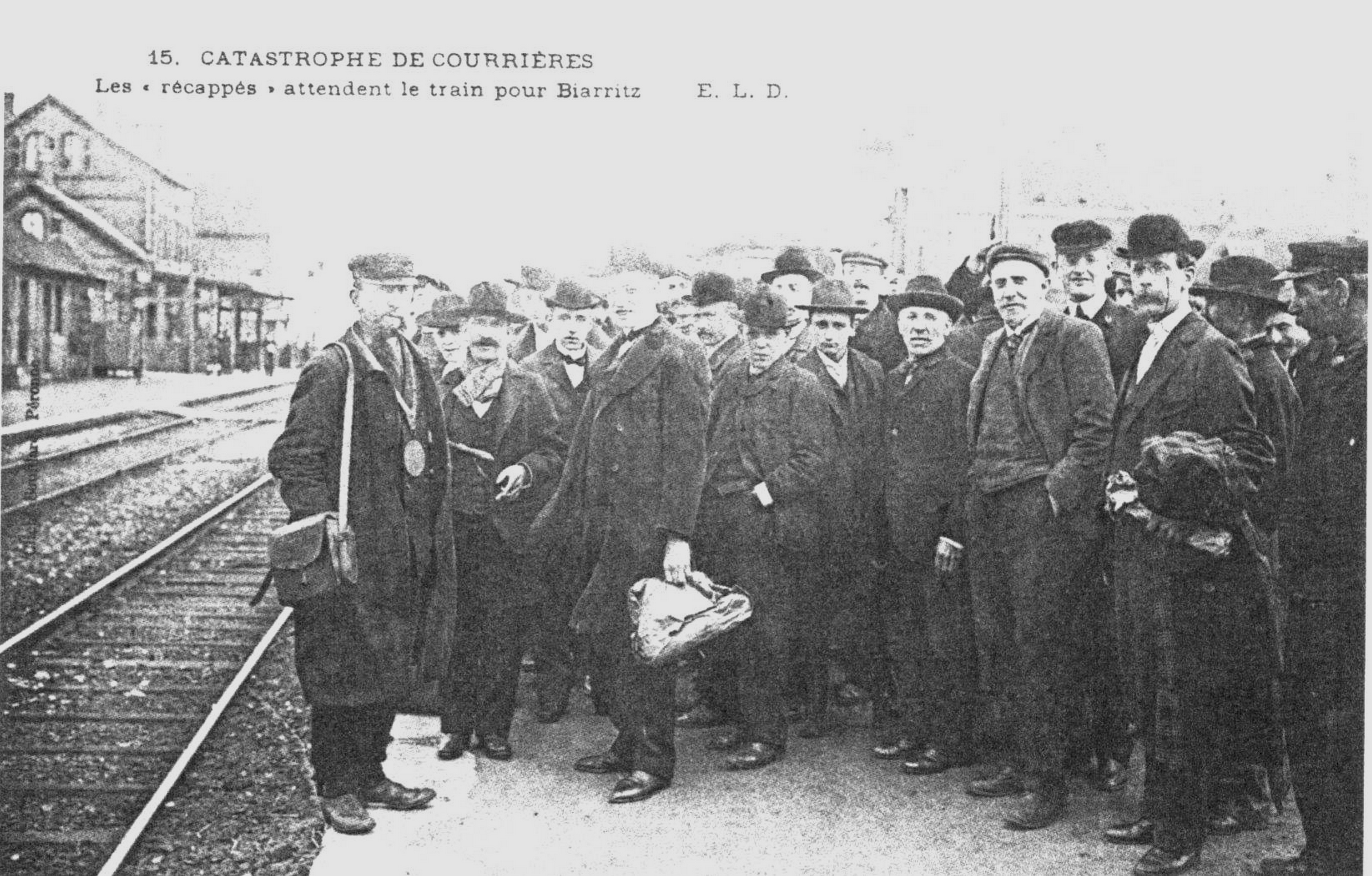 Courrières mine disaster, the tenth march 1906, in the towns of Billy-Montigny, Sallaumines, Méricourt and Noyelles-sous-Lens.